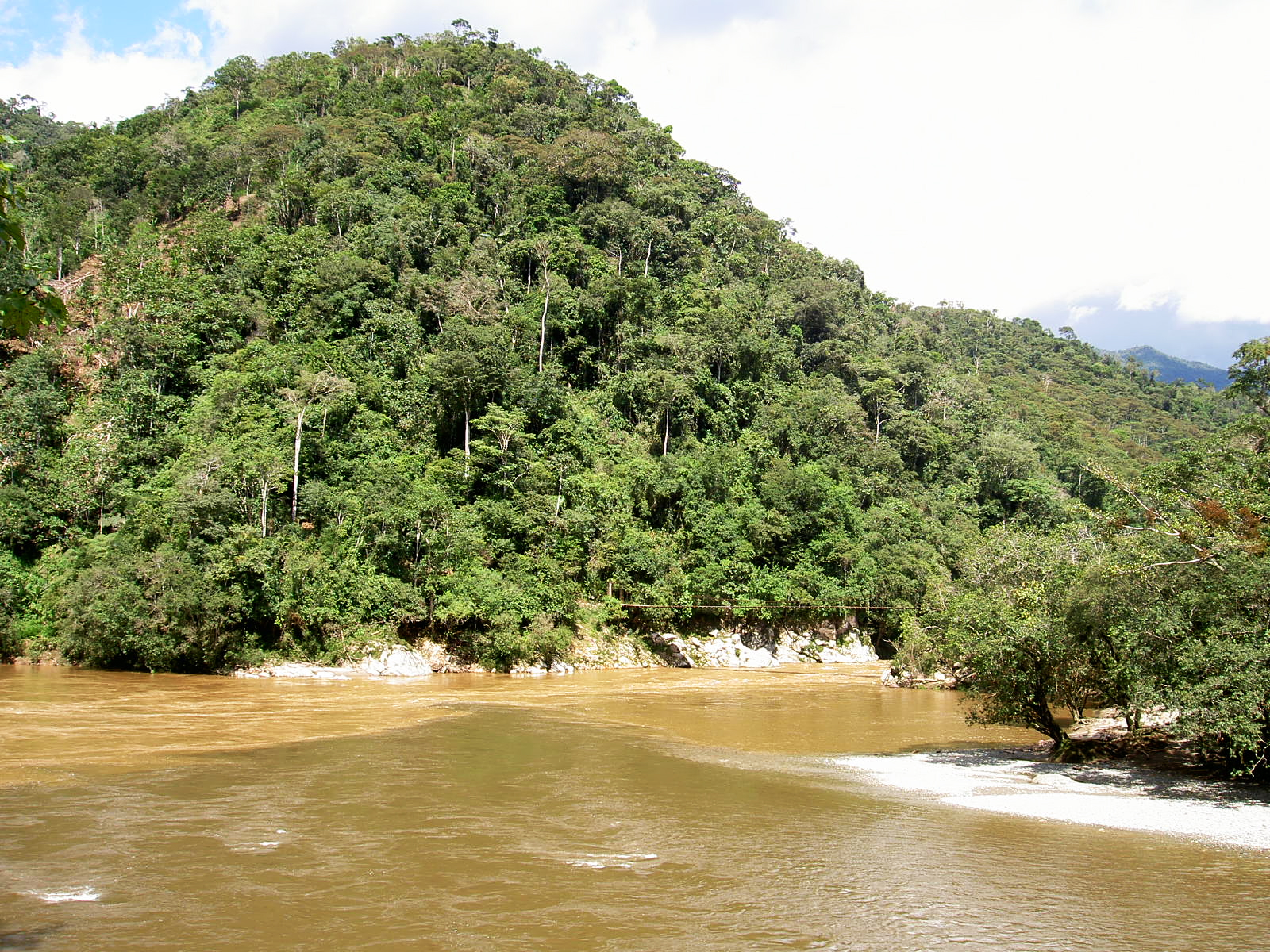 Amazonia near Gualaquiza (Ecuador)